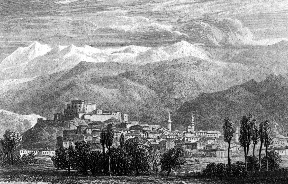 Patras (Ancient Patrae) Achaia engraving by William Miller after H W Williams (Miller paid £17-17-0 in 1826 for engraving), published in Select Views In Greece With Classical Illustrations. Williams, Hugh William. London: Longman Rees Orme Brown and Green; and Adam Black. 1829